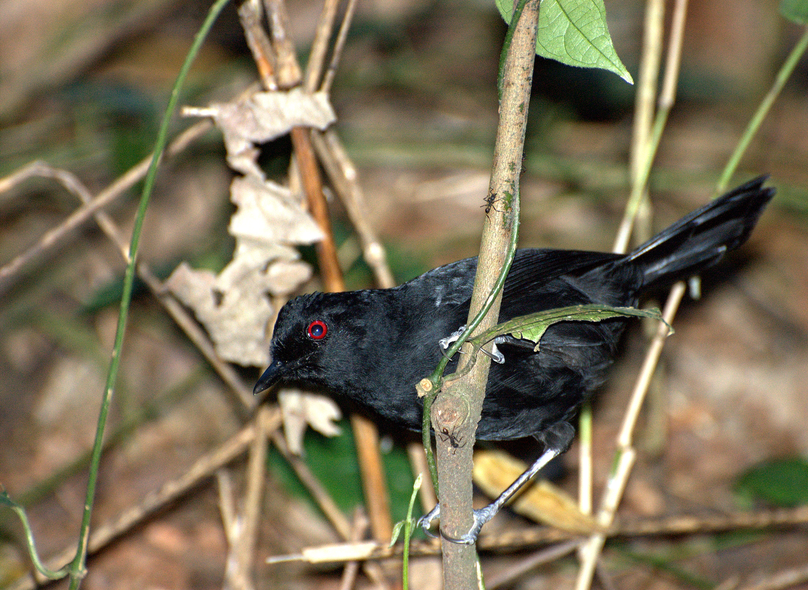 A male White-shouldered Fire-eye at Parque Estadual da Serra da Cantareira - São Paulo - Capital